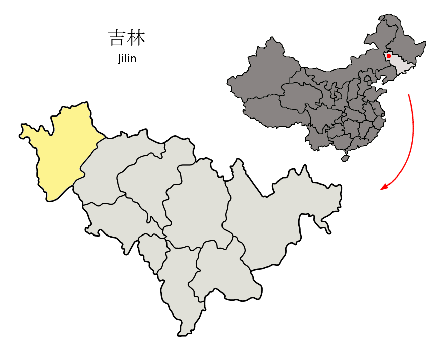 Location of Baicheng Prefecture (yellow) within Jilin Province of China Map drawn in november 2007 using various sources, mainly : Jilin Province administrative regions GIS data: 1:1M, County level, 1990 Jilin Counties map from